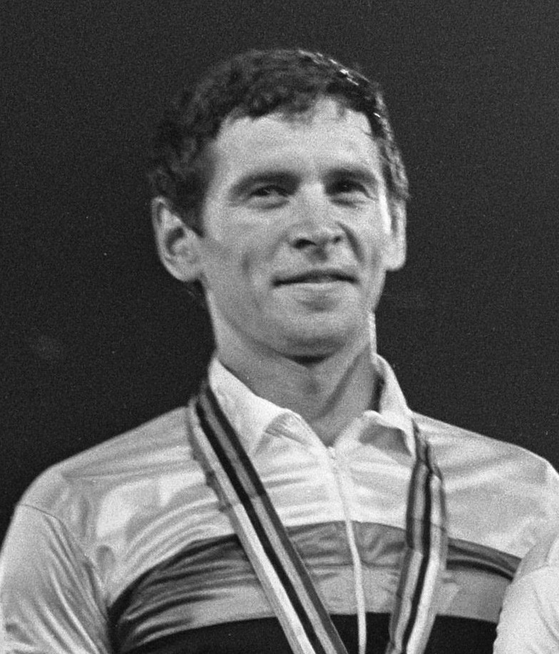 WK Wielrennen op de baan. De Russische ploeg op podium